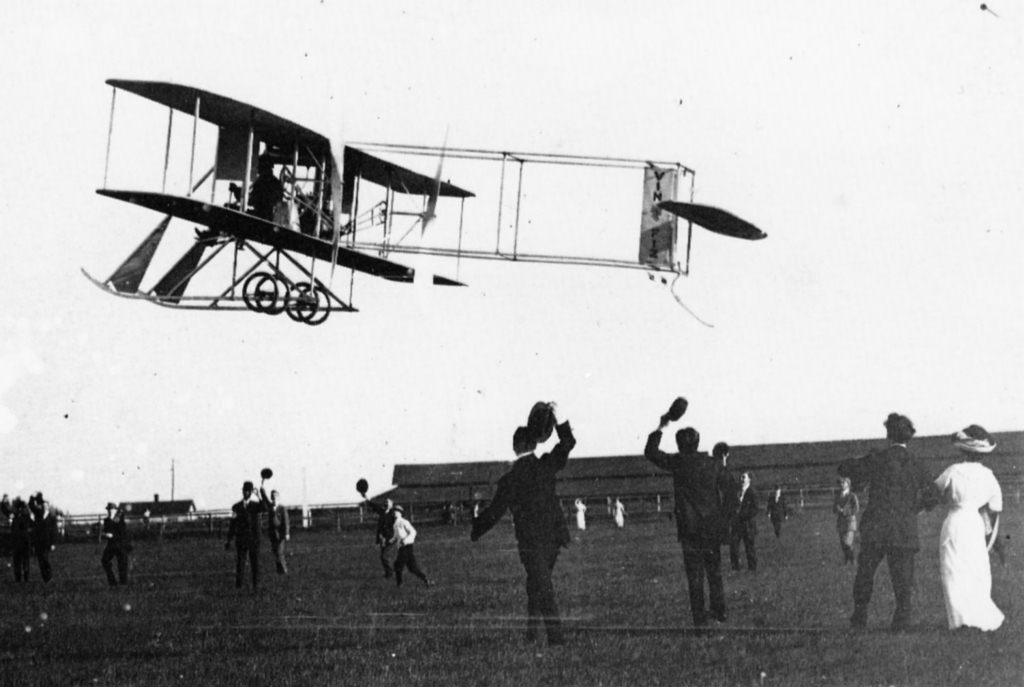 Cal Rodgers' "Vin Fiz" Flyer (a Wright Model EX biplane) takes off from Sheepshead Bay, Brooklin on September 17, 1911. It is the start of the first transcontinental flight across the U.S.